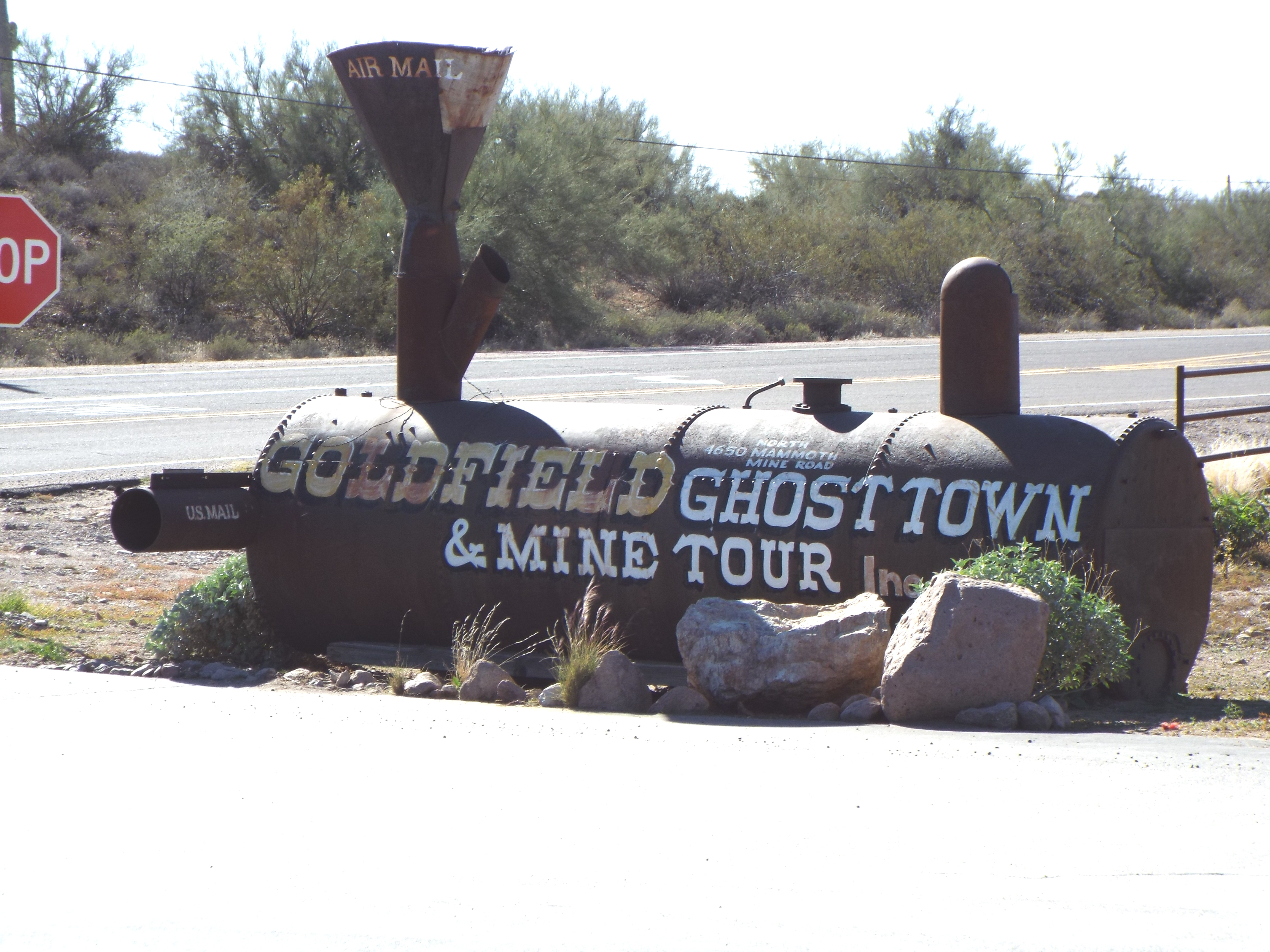 Entrance of the Goldfield Ghost Town. Goldfield was a mining town established in 1893 next door to the Superstition Mountain. When the mine vein faulted, the grade of ore dropped and the town eventually became a ghost town. The town and its historic buildings were revived as a tourist attraction. The ghost town is located at 4650 N, Mammoth Mine Road in the town of Apache Junction, Az.